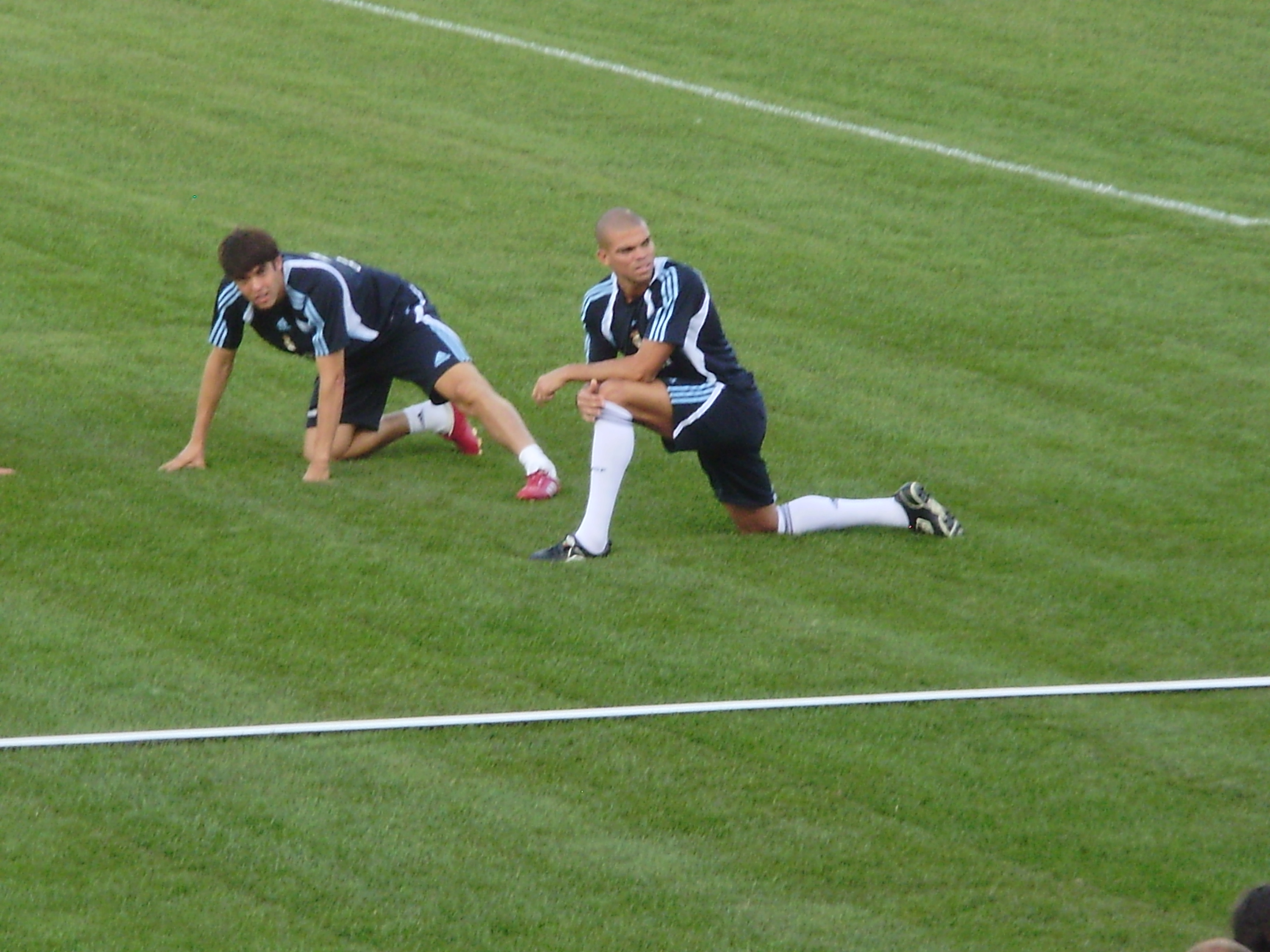 Real Madrids players Kaka and Pepe Toronto, 2009